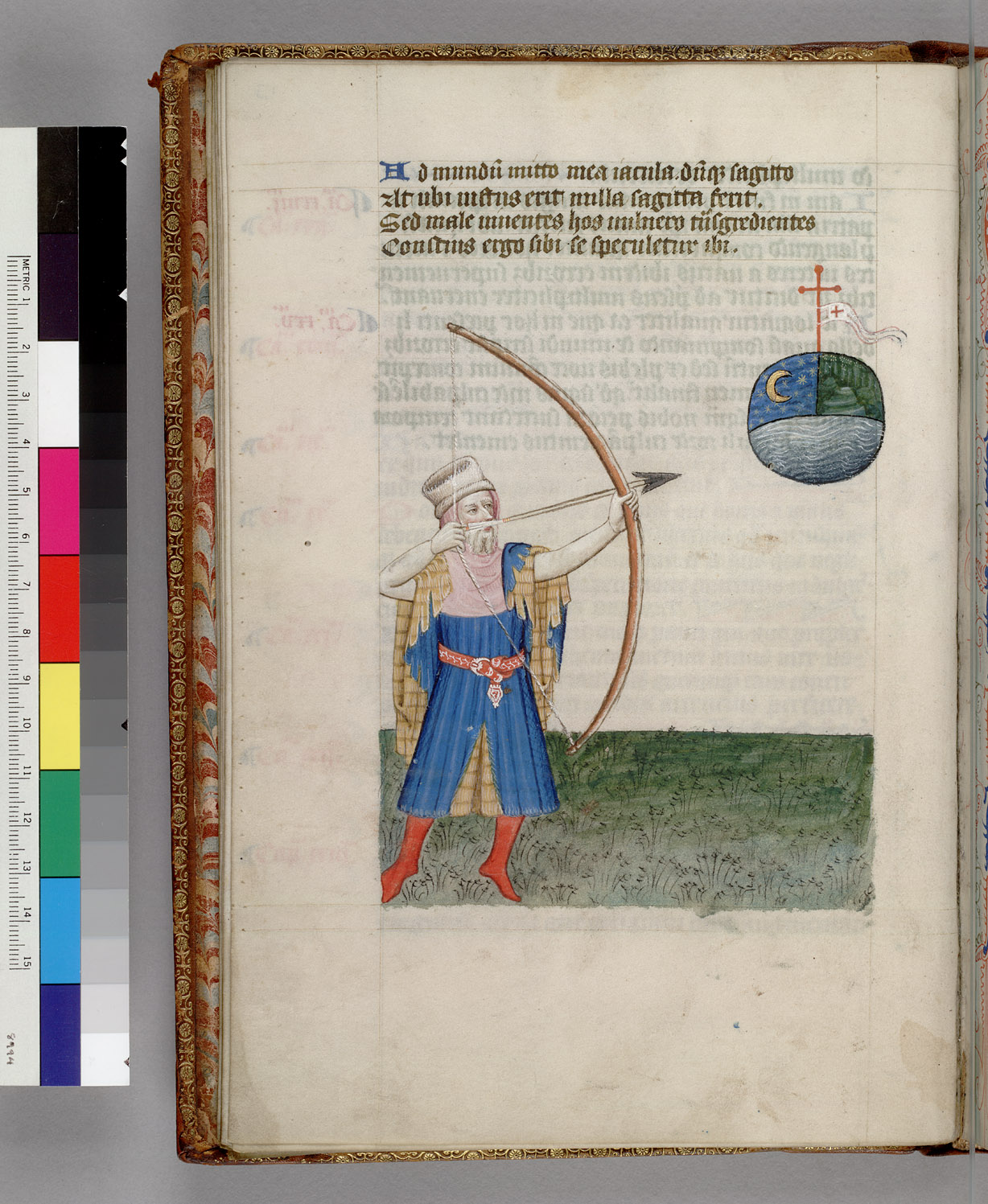 Text on the above image in one version of the Vox Clamantis reads "I hurl my darts at the world and I shoot my arrows; Yet where there is a just man, no arrow strikes. But I wound those transgressors who live evilly; Therefore, let him who is conscious of being in the wrong look to himself in that respect."[1]:342 Macaulay claimed the picture has less claim to be considered an authentic portrait than those of the Cotton and Glasgow manuscripts.[2]